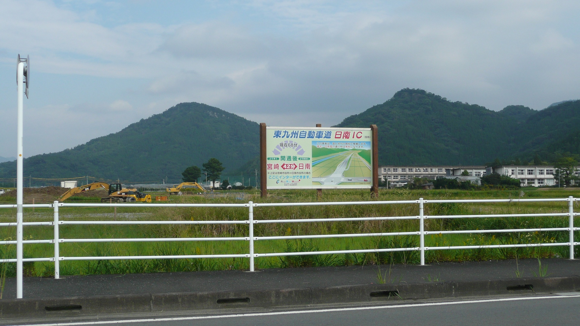 The Under Construction of Nichinan Togo Interchange of Higashi-kyushu Expressway in Nichinan City, Miyazaki Prefecture, Japan.